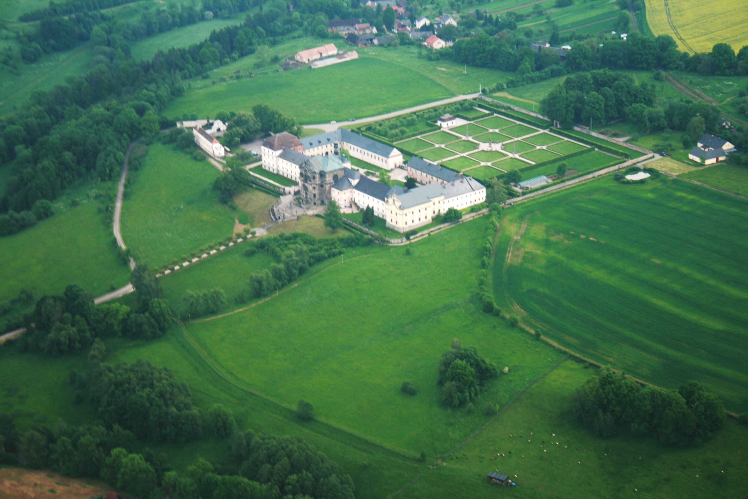 Kuks Hospital from air, eastern Bohemia, Czech Republic